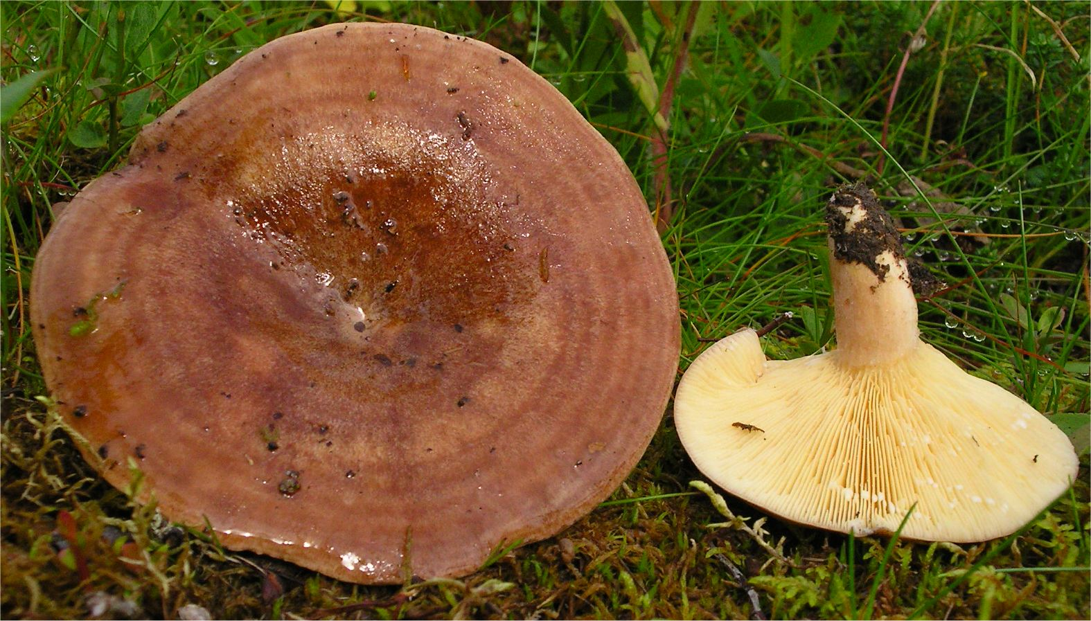 Fruit bodies of the milk mushroom Lactarius hysginus (Fr.) Fr. Specimens photographed in Blomstervallen, Hemavan, Lapland, Sweden.